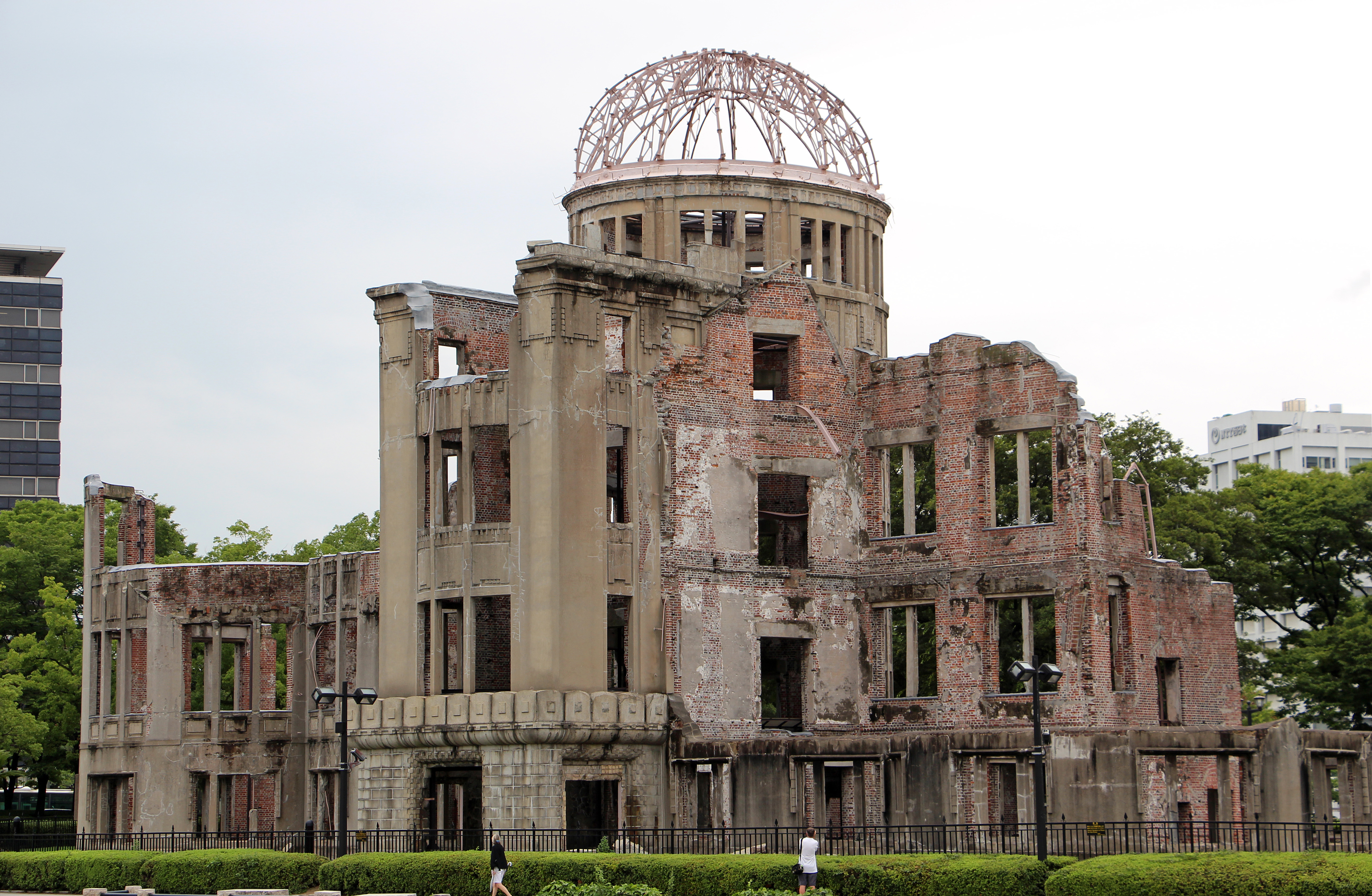 Hiroshima Peace Memorial, commonly called the Atomic Bomb Dome. Hiroshima. Japan